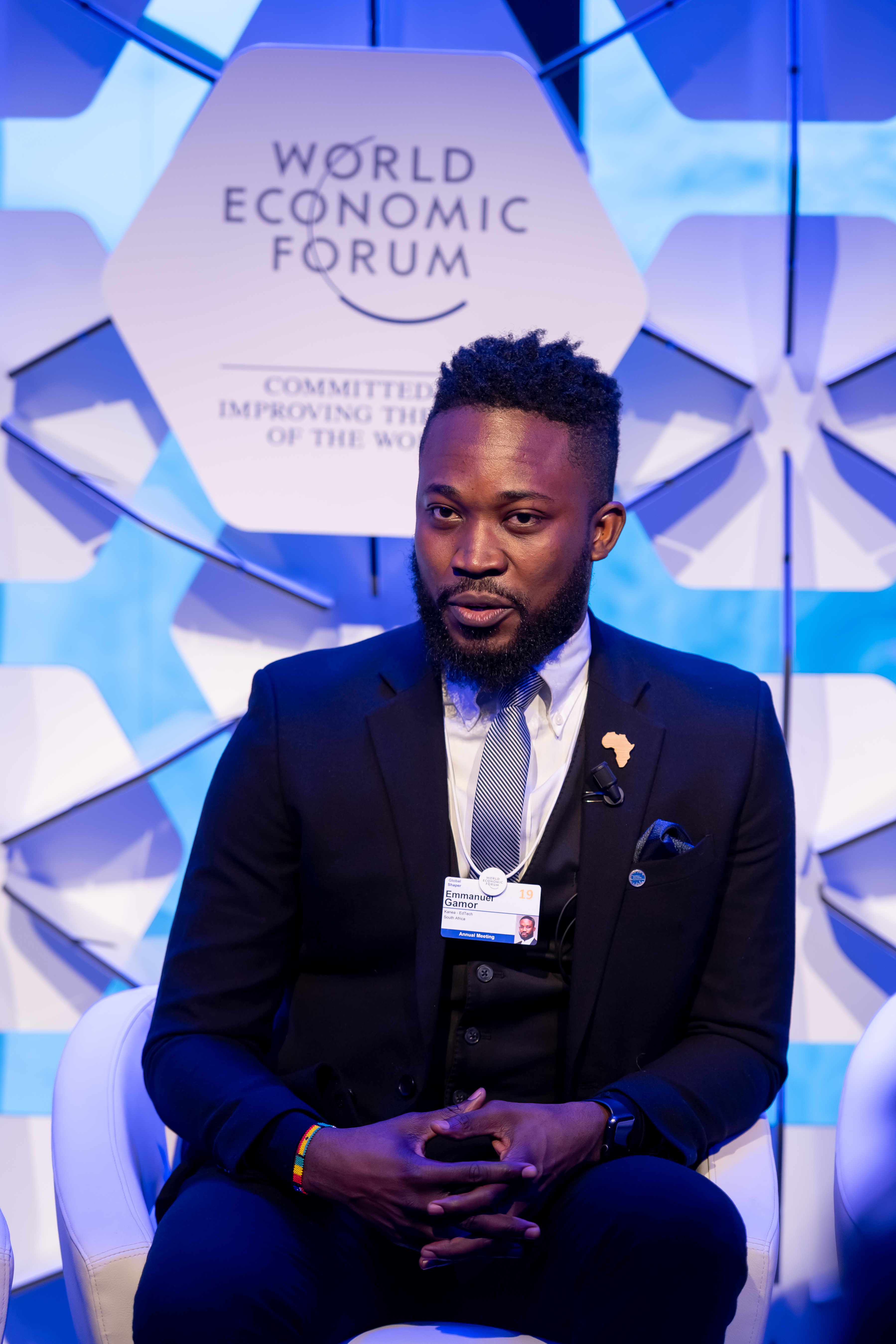 Emmanuel Gamor, Entrepreneur, Kanea - EdTech, South Africa speaking during the Session "Last-Mile Learning" at the Annual Meeting 2019 of the World Economic Forum in Davos, January 22, 2019. Congress Centre - Agora. Copyright by World Economic Forum / Sandra Blaser